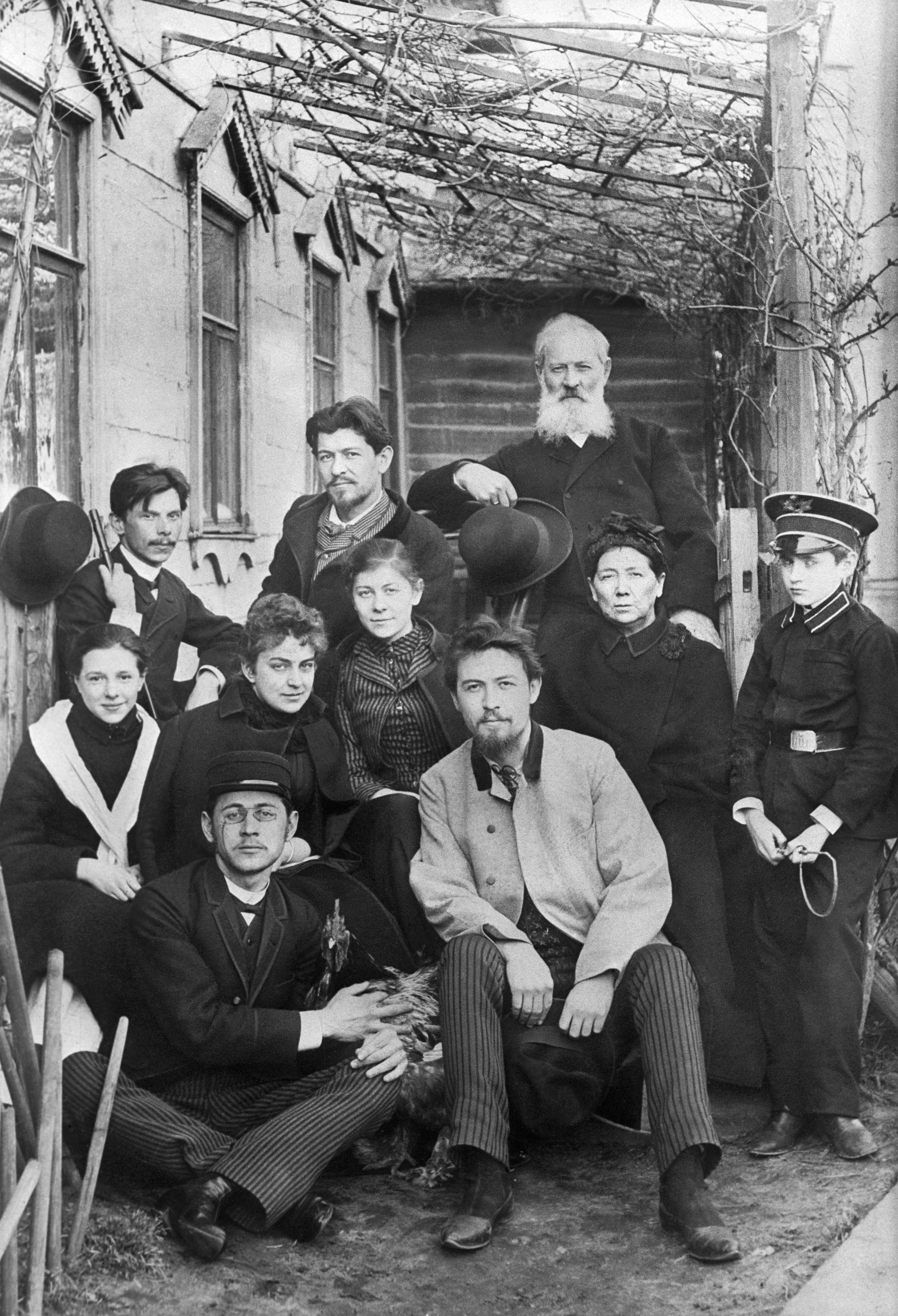 Chekhov family and friends in front of Sadovaya-Kudrinskaya home, 1890. (Top row, left to right) Ivan, Alexander, Father; (second row) unknown friend, Lika Mizinova, Masha, Mother, Seryozha Kiselev; (bottom row) Misha, Anton.